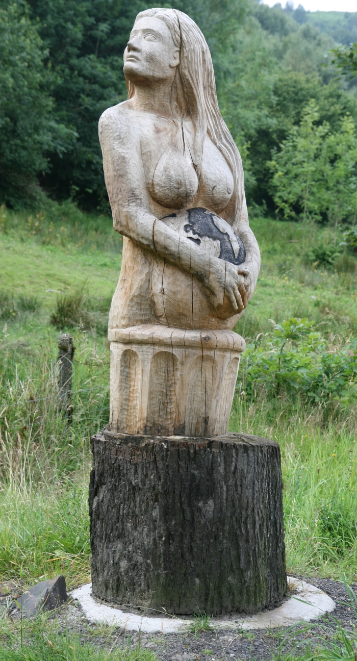 Fragile Earth, a sculpture by Paul Clarke at the Cwmaman Sculpture Trail. Unveiled in 2007, it forms part of a trail with several other wooden sculptures. Located nearby St Joseph's Church, Cwmaman. Darren Wyn Rees at Aberdare Blog